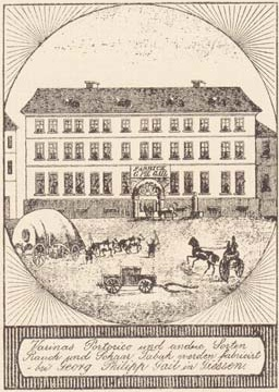 The Gail'sche Cigars Manufactury in Gießen - advertising from the middle of the 19th century.